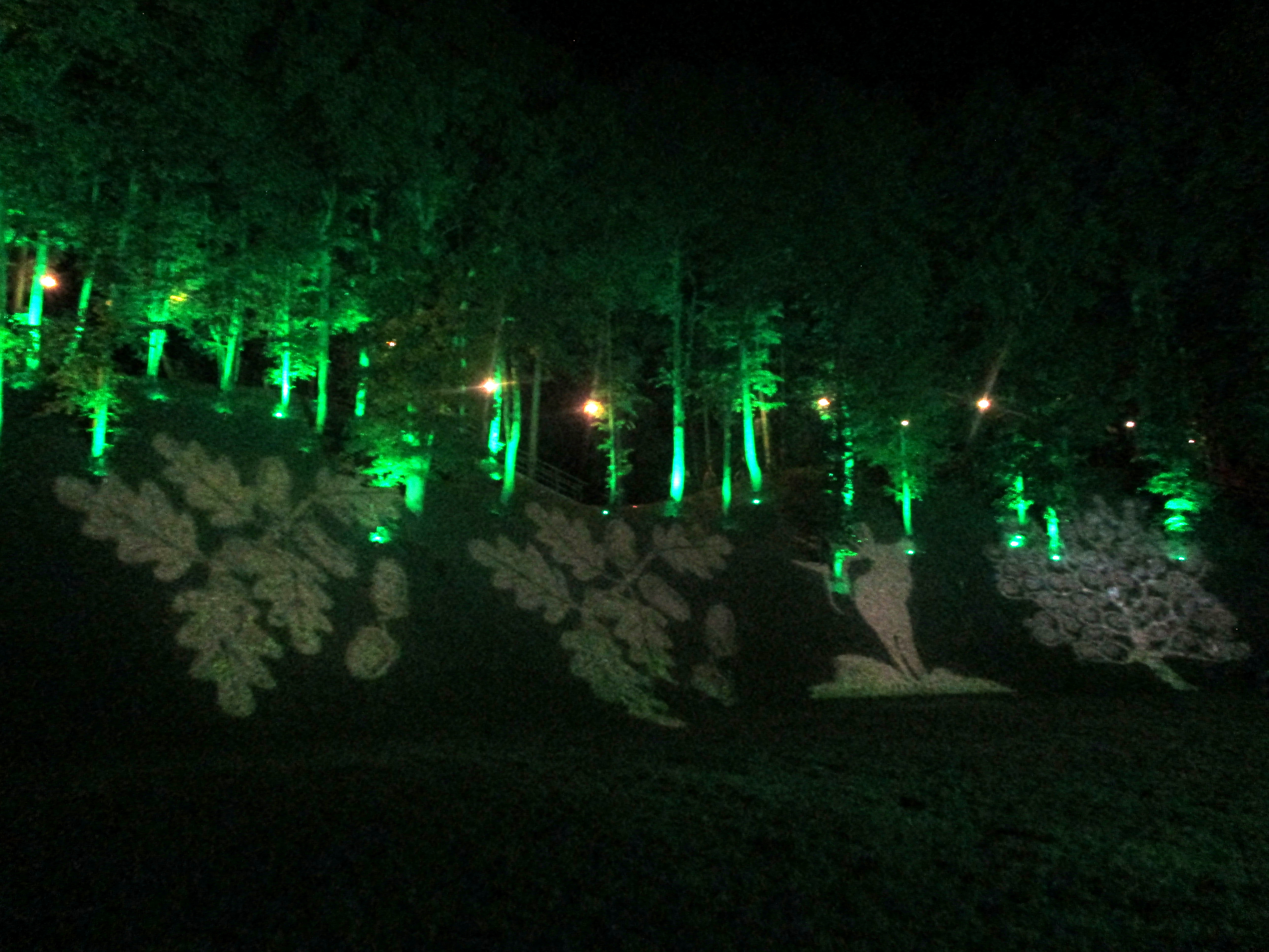 Mėnuo Juodaragis XXI images of light.